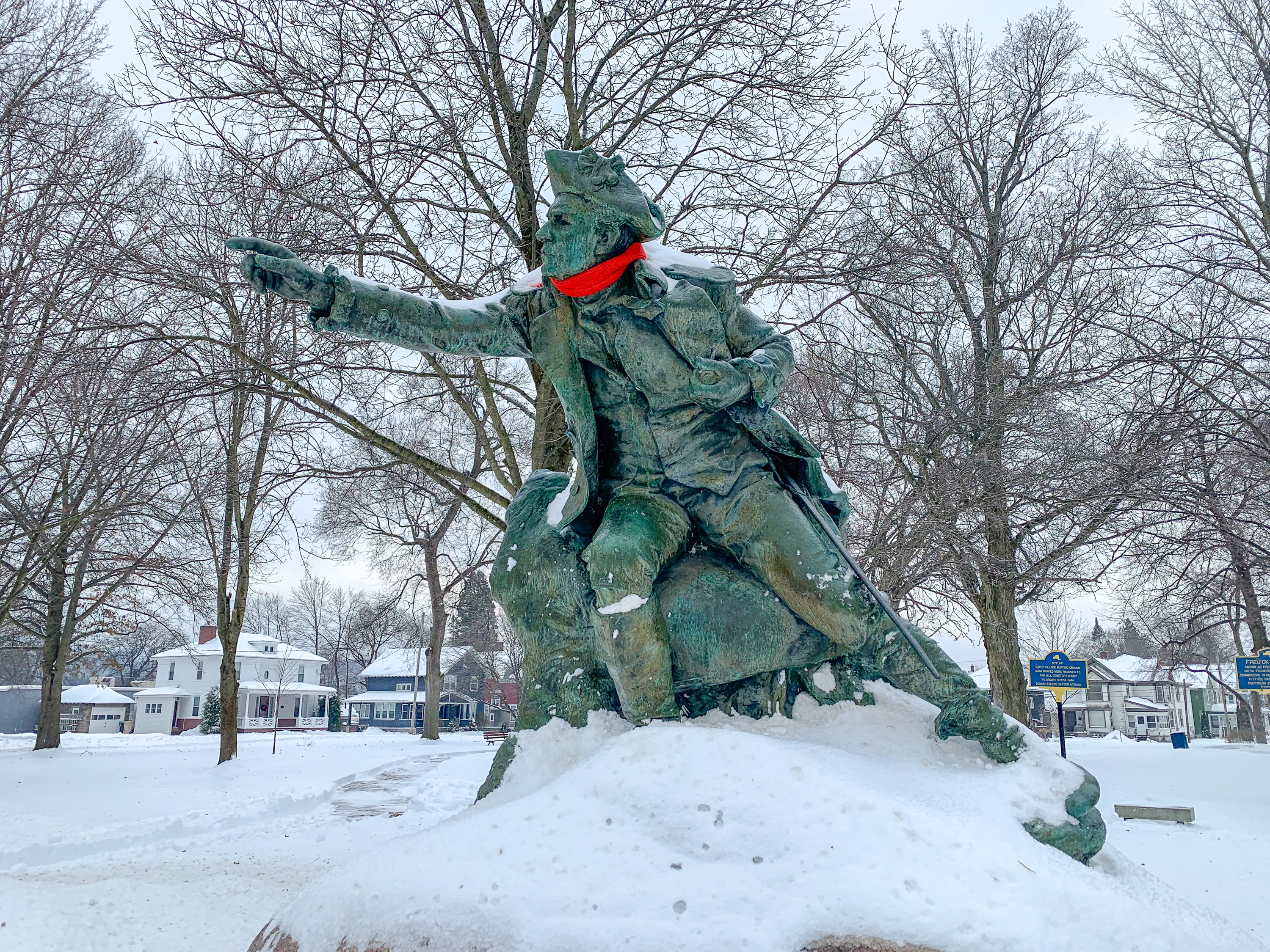 The bronze statue of Gen Nicholas Herkimer stands in Myers Park, Herkimer New York. 1907.